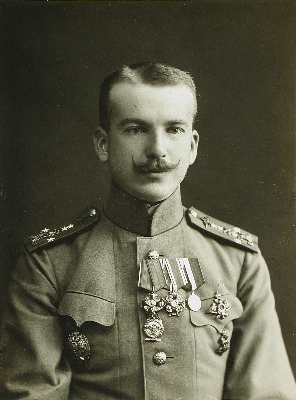 Pyotr Nesterov, russian pilot, 1st world war heroe. (1887-1914).